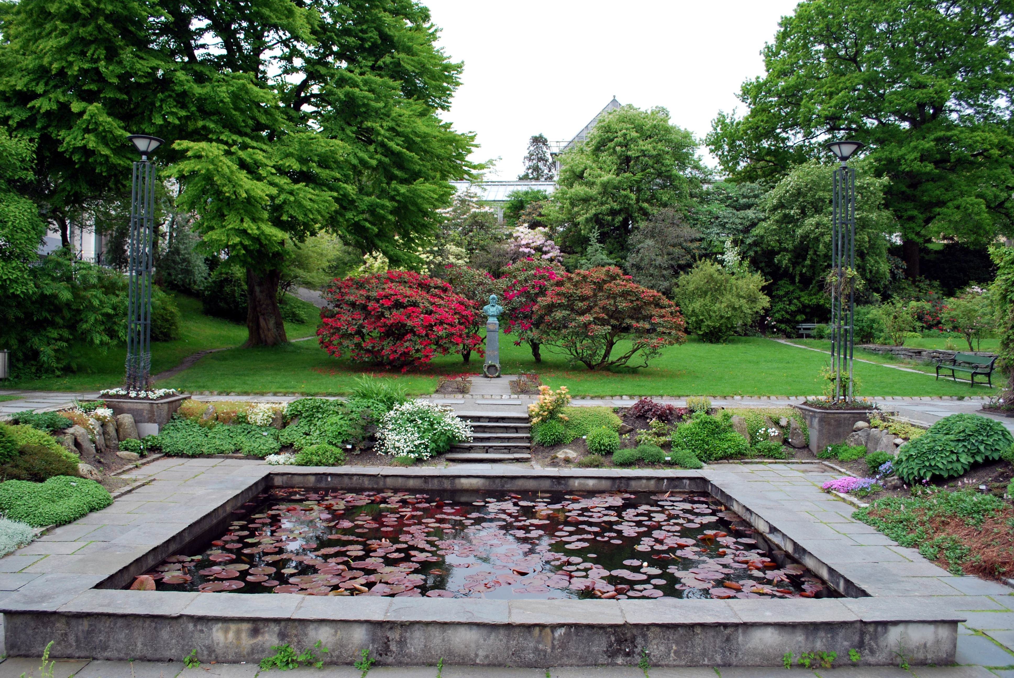 Botanical garden, University of Bergen.